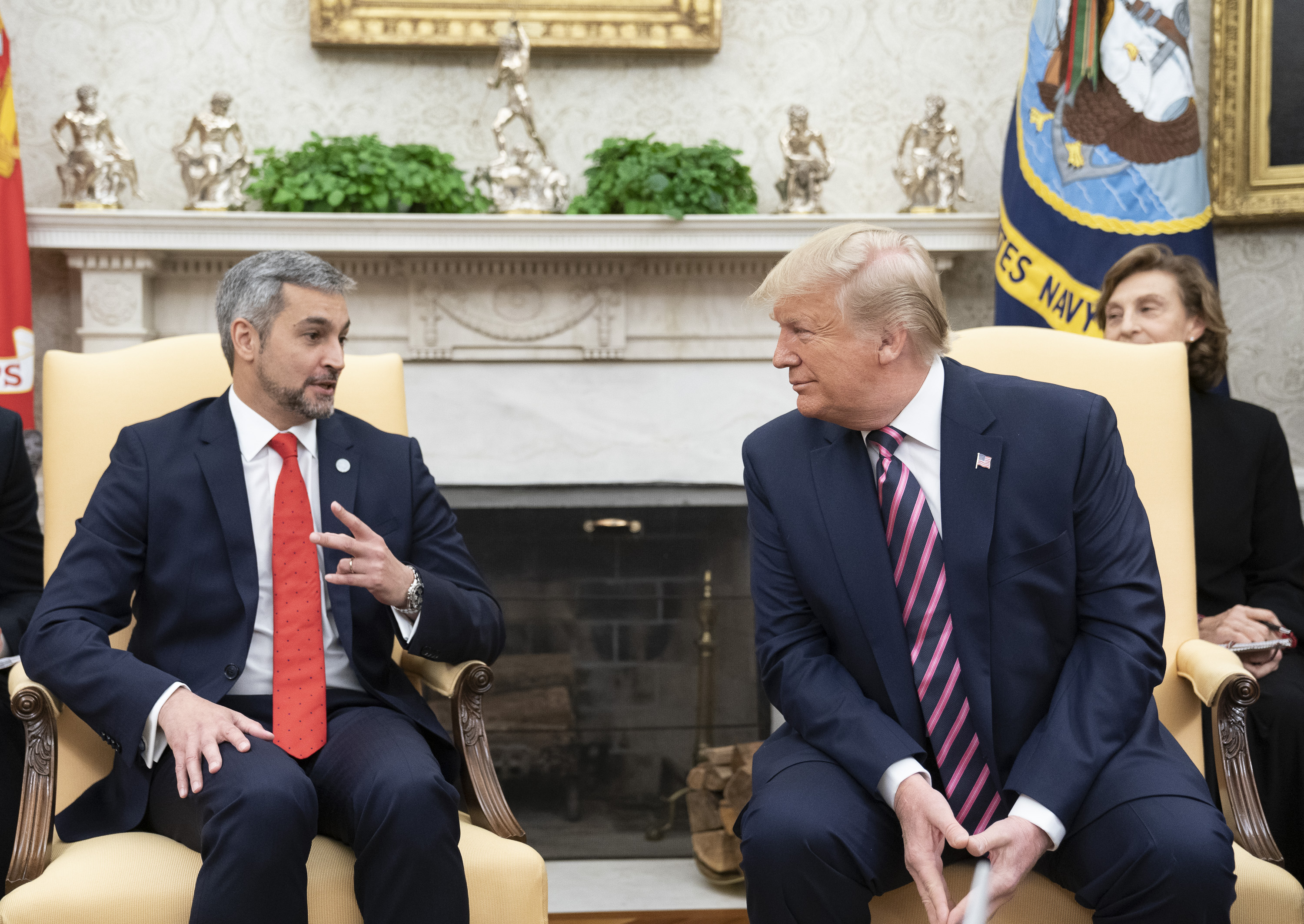 President Donald J. Trump participates in an expanded bilateral meeting with Paraguay President Mario Abdo Benitez Friday, Dec. 13, 2019, in the Oval office of the White House. (Official White House Photos by Joyce N. Boghosian)